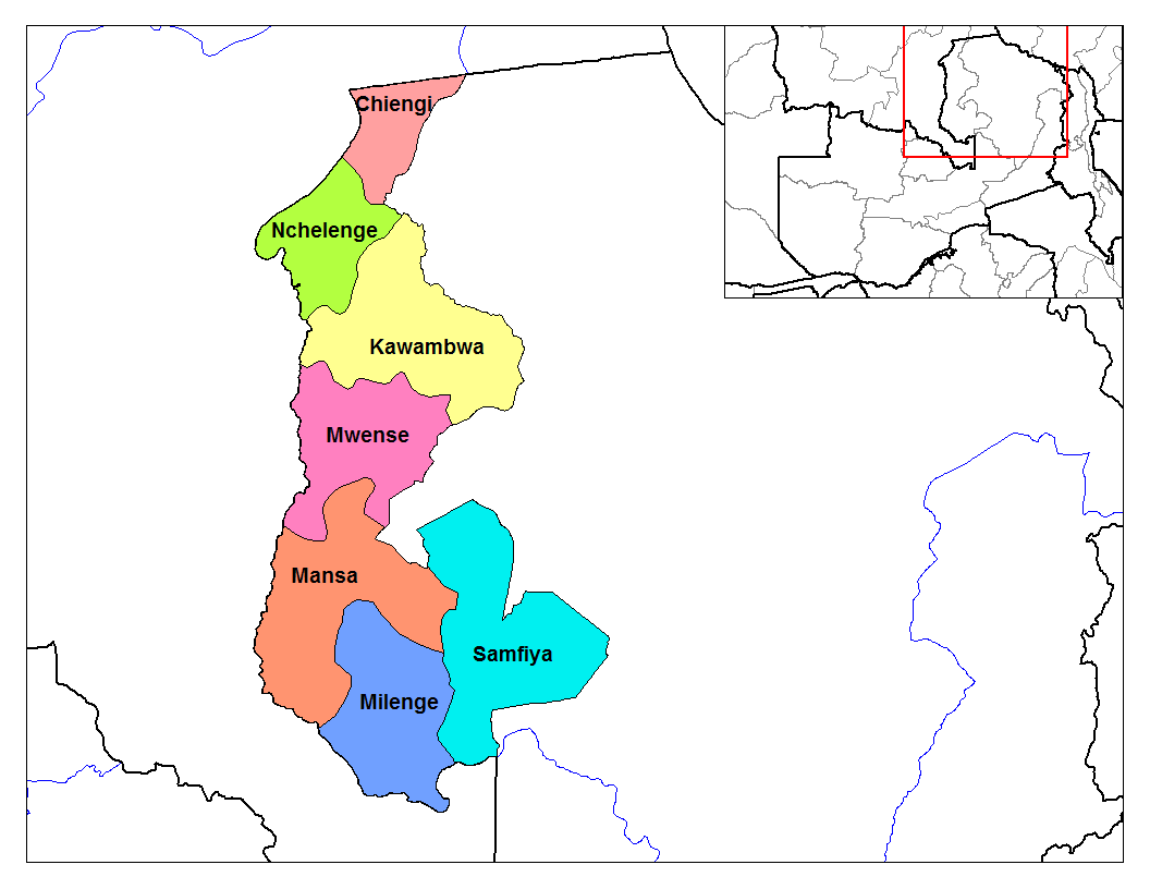 Map of the districts of Luapula province in Zambia. Created by Rarelibra 15:35, 28 December 2006 (UTC) for public domain use, using MapInfo Professional v8.5 and various mapping resources.